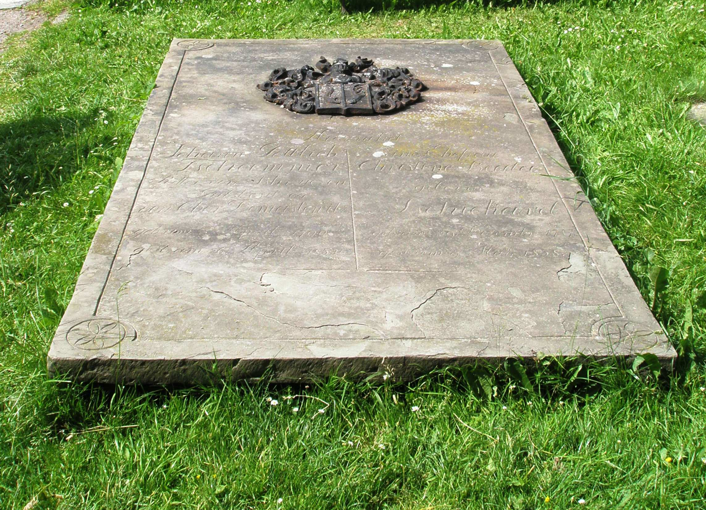 The Tschammer family grave in Komorní Lhotka, Czech Republic